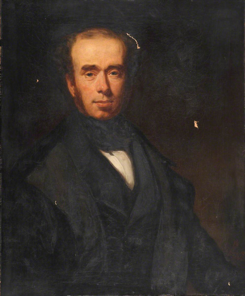 Photograph of a portrait of Joseph Whitworth, engineer